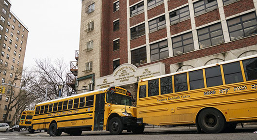 Pupa Cheider in Williamsburg, Brooklyn and school buses